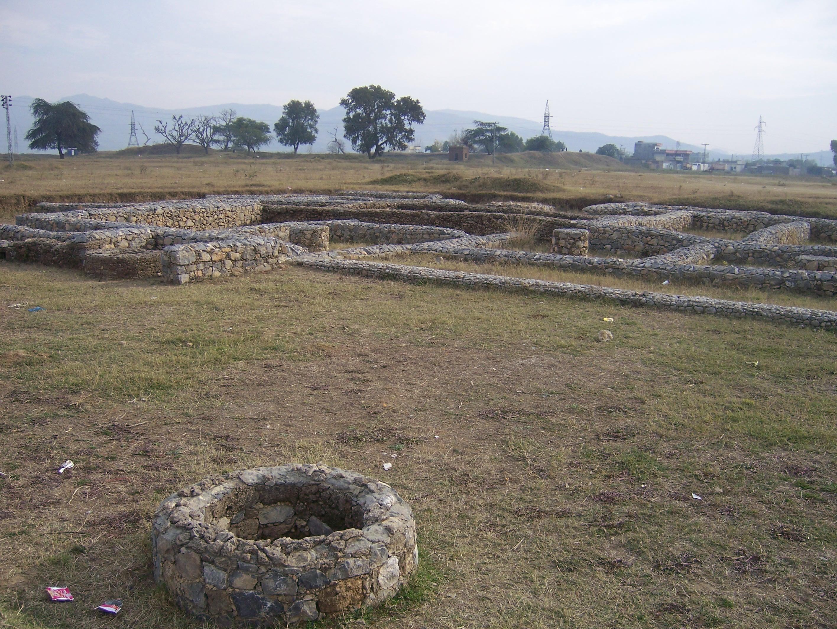 Ruins of Bhir Mound — at ancient Taxila — in Punjab Province, Pakistan.